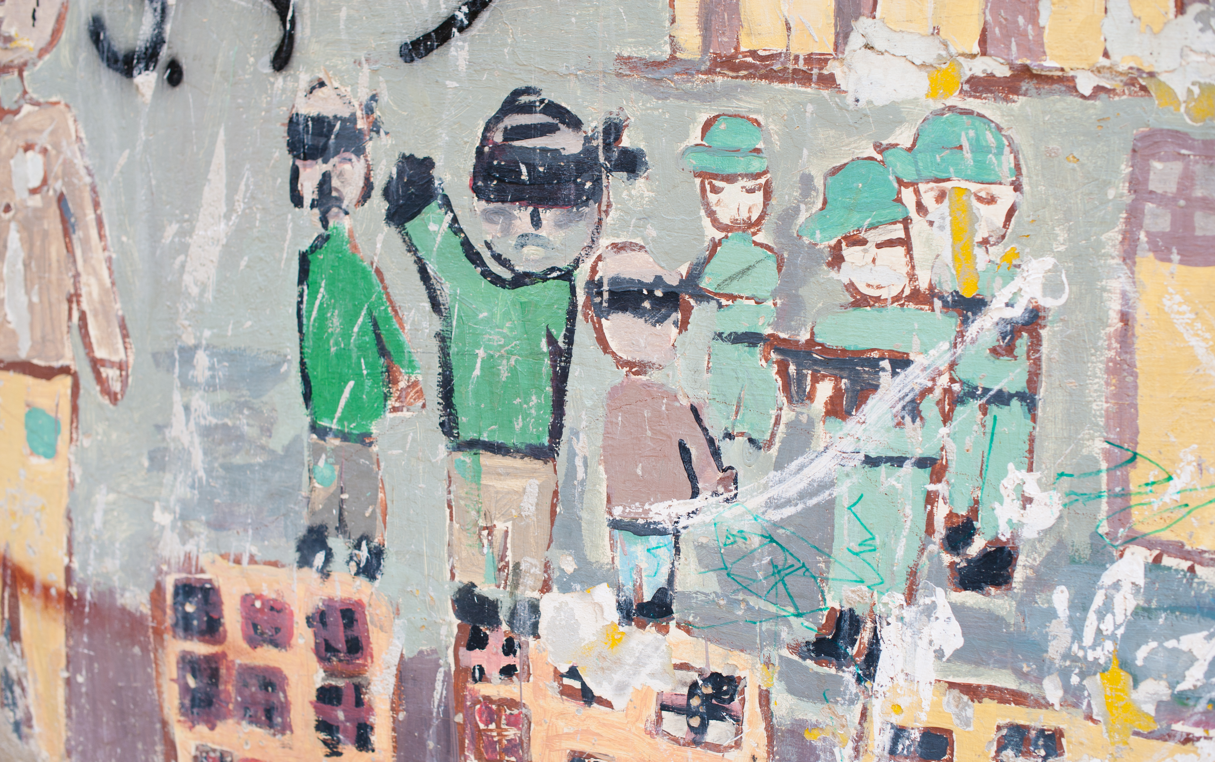 Graffiti in the Balata refugee camp in Nablus, West Bank, Palestine